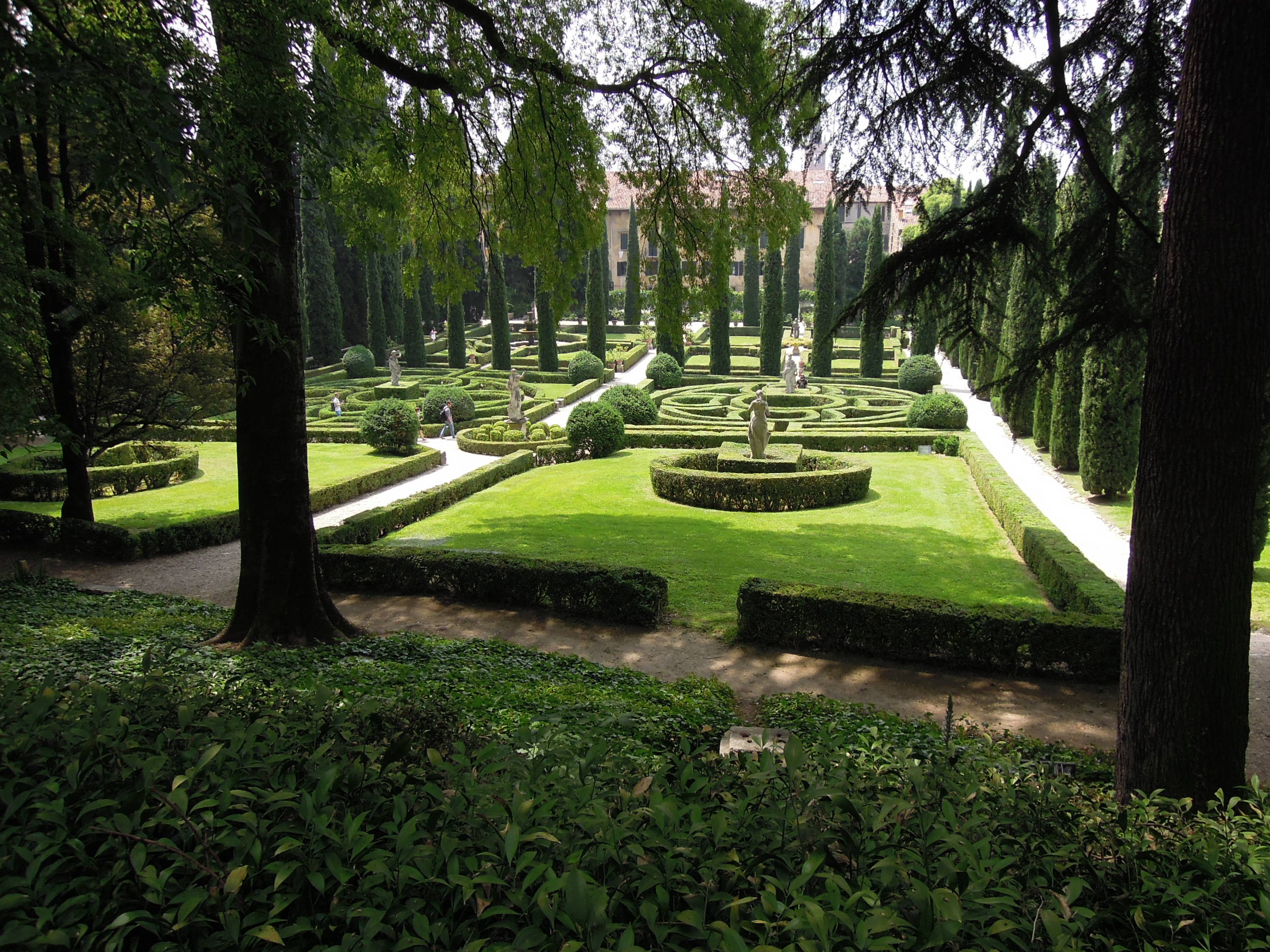 Giardino Giusti, Verona 2016